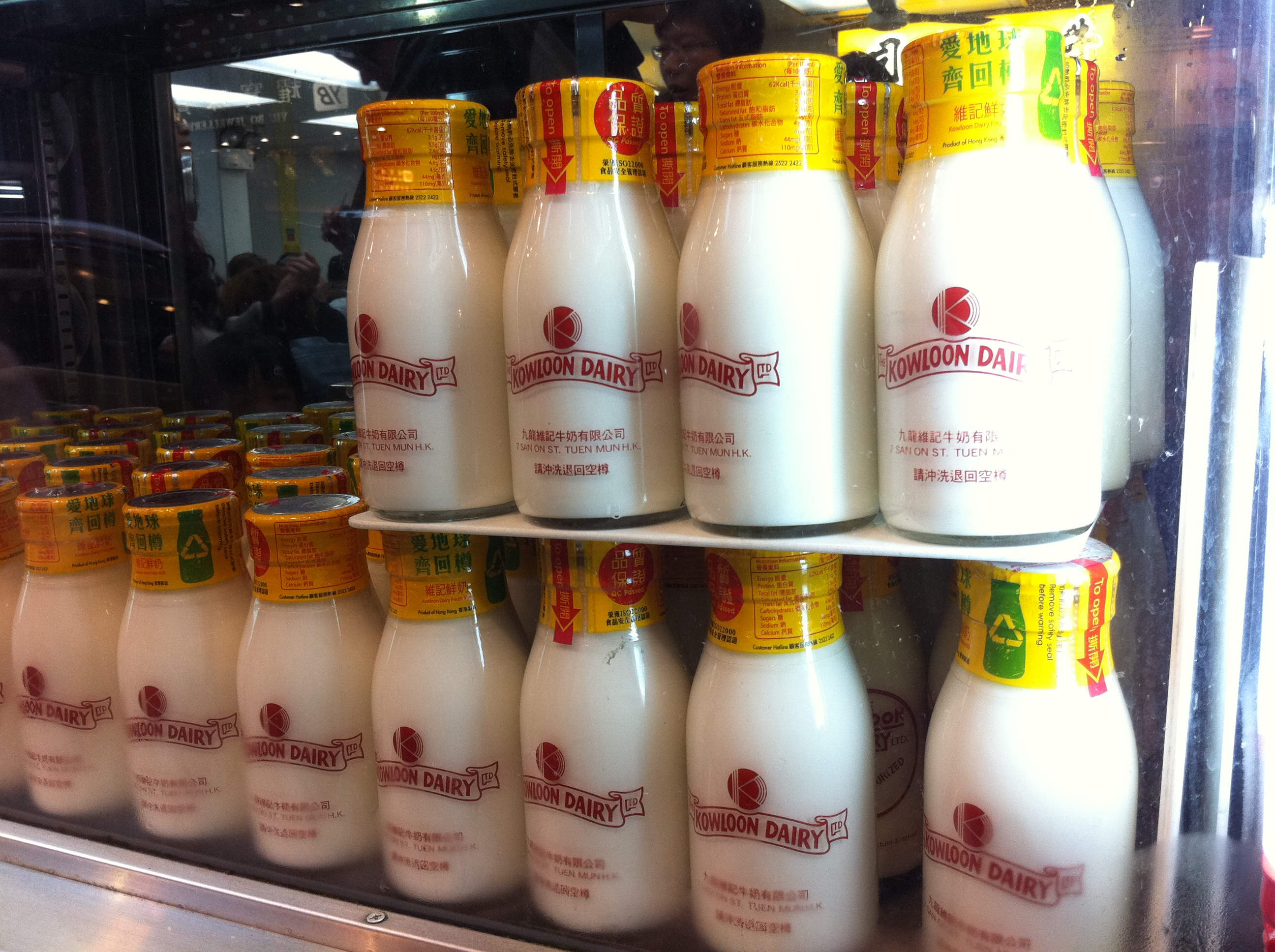 油麻地 白加士街 澳洲牛奶公司 九龍維記牛奶, Australia Daily Company, Parkes Street, Yau Ma Tei, Hong Kong